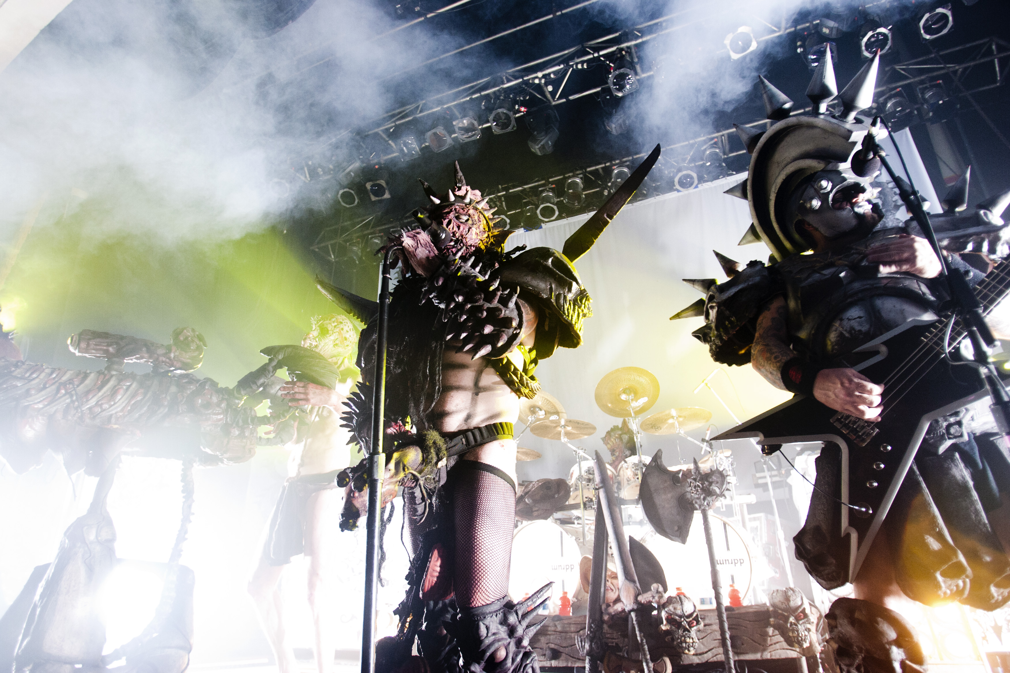 GWAR live in Toronto, Canada, December 17 2008